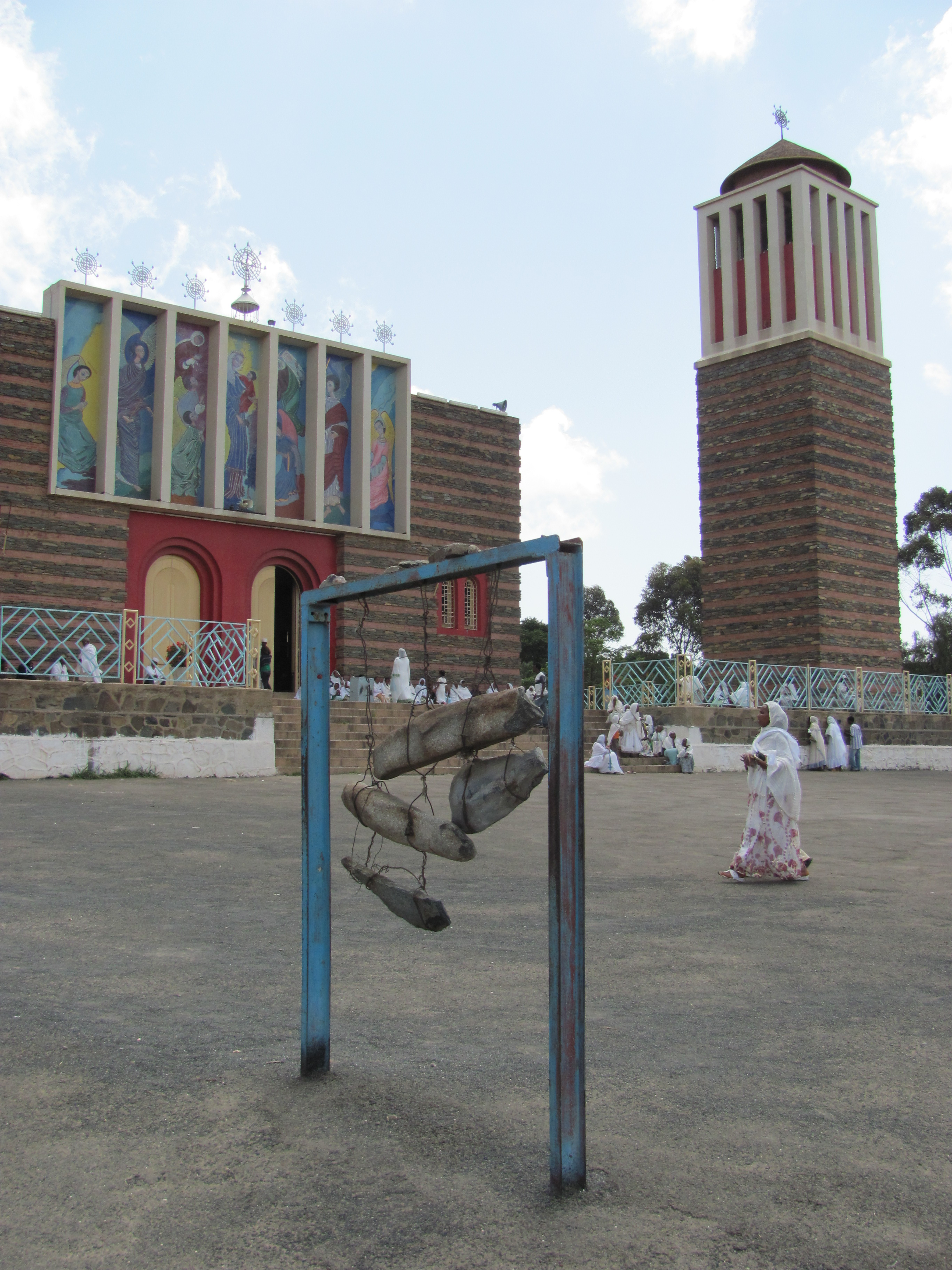 Stone-Bells of Nda Mariam Cathedral, Asmara